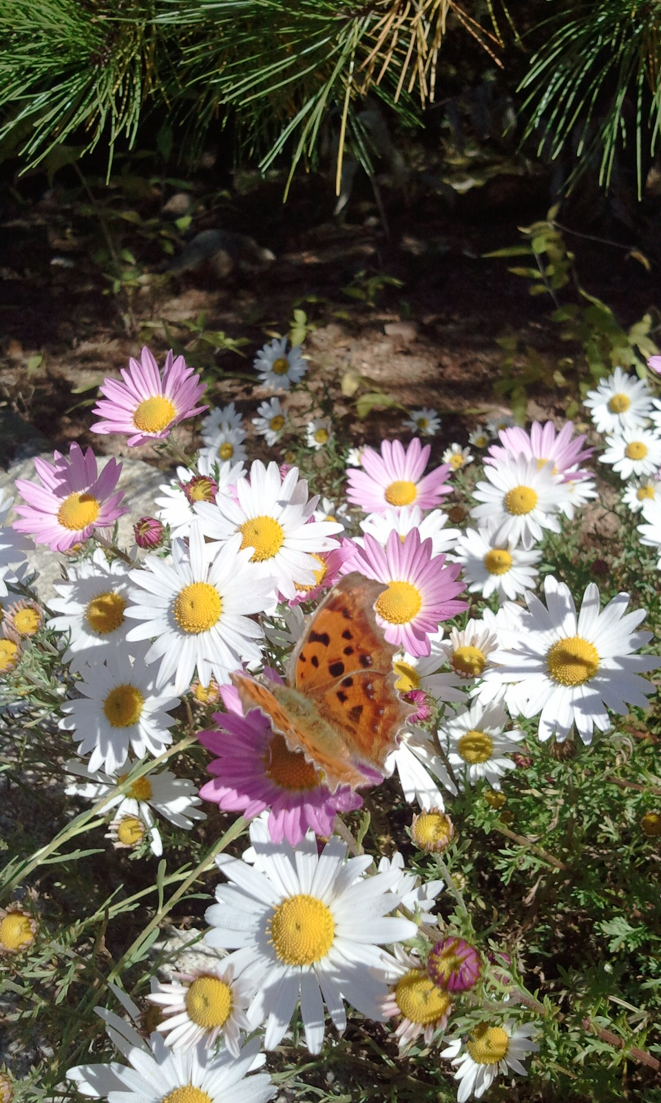 Flowers from the korea botanic garden